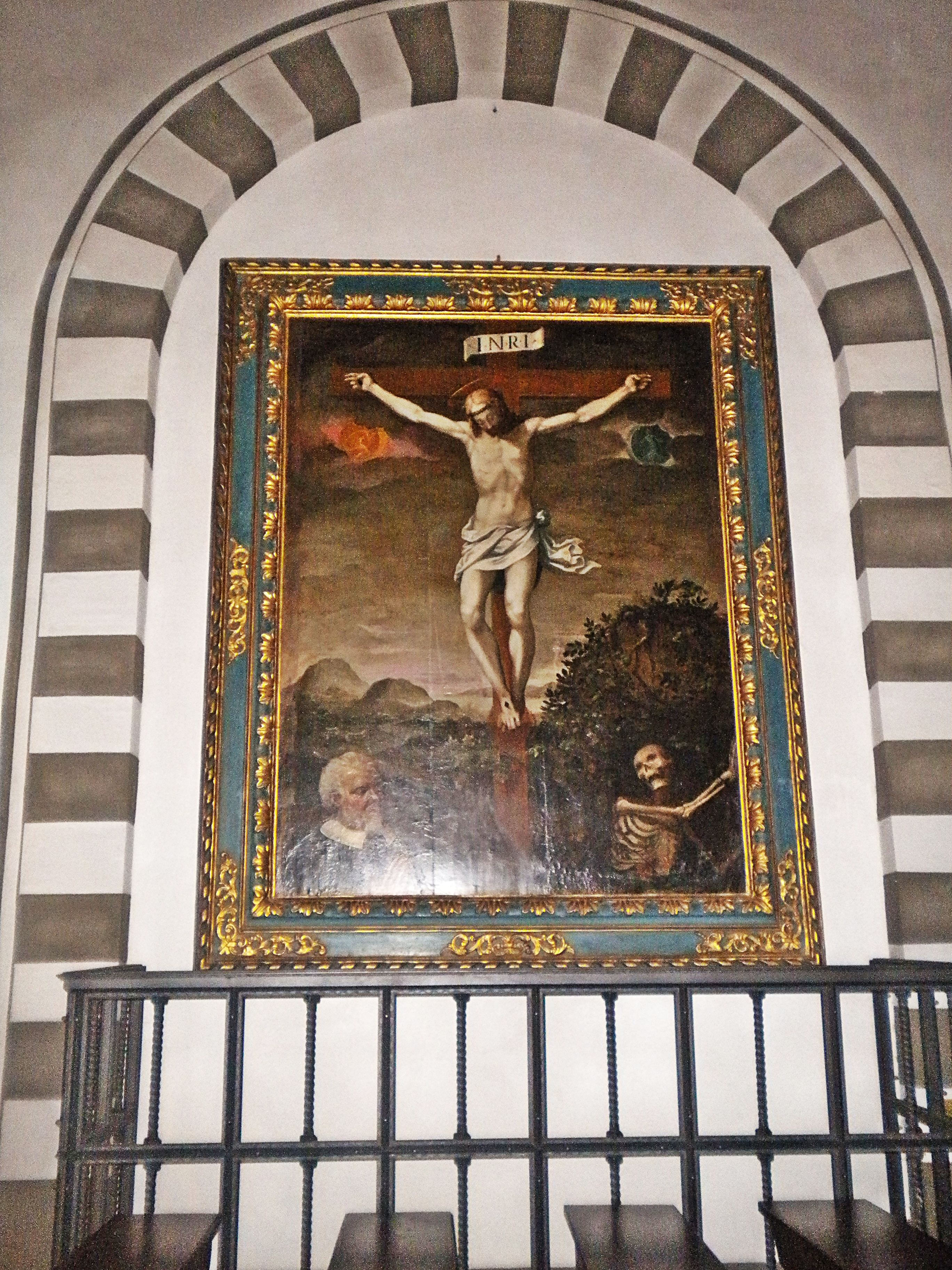 crucifix